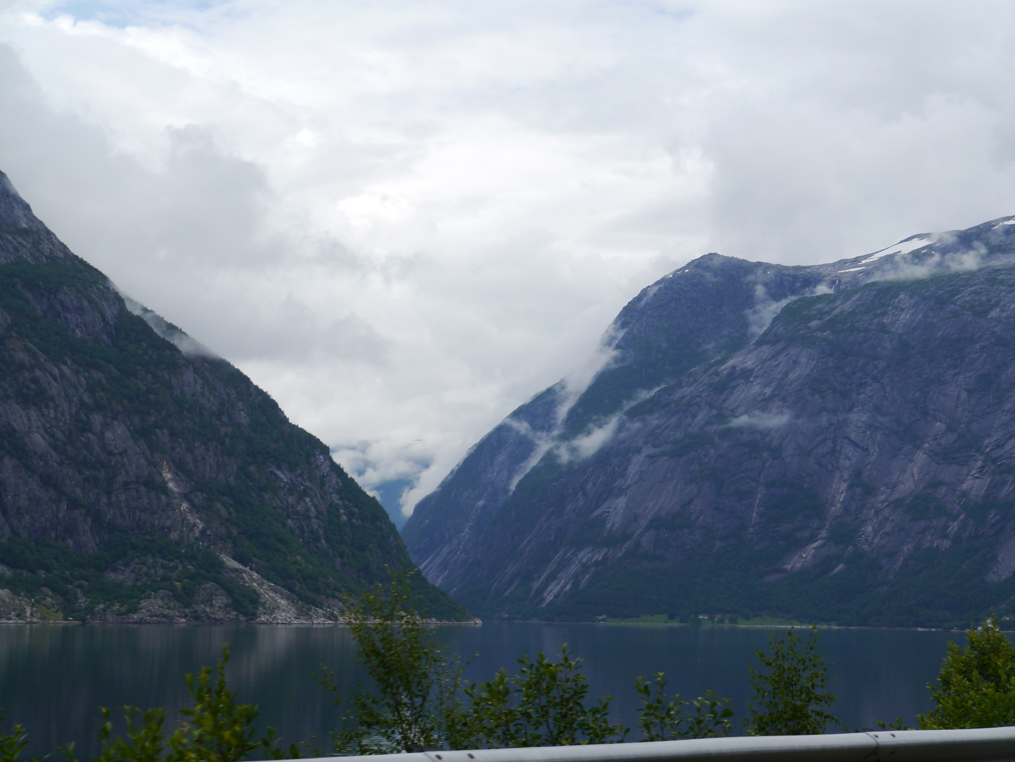 Eidfjorden, Hordaland County, Western Norway